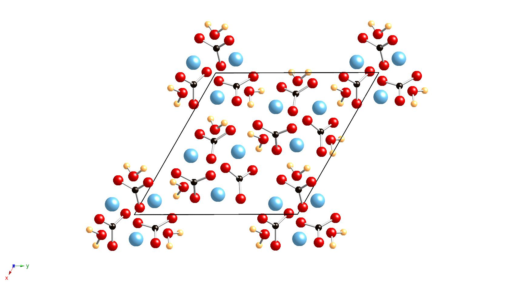 View of monohydrocalcite structure down [001]